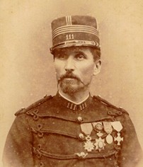 Chef de bataillon François Léon Faure (1833-1931), 111th Line Infantry Battalion